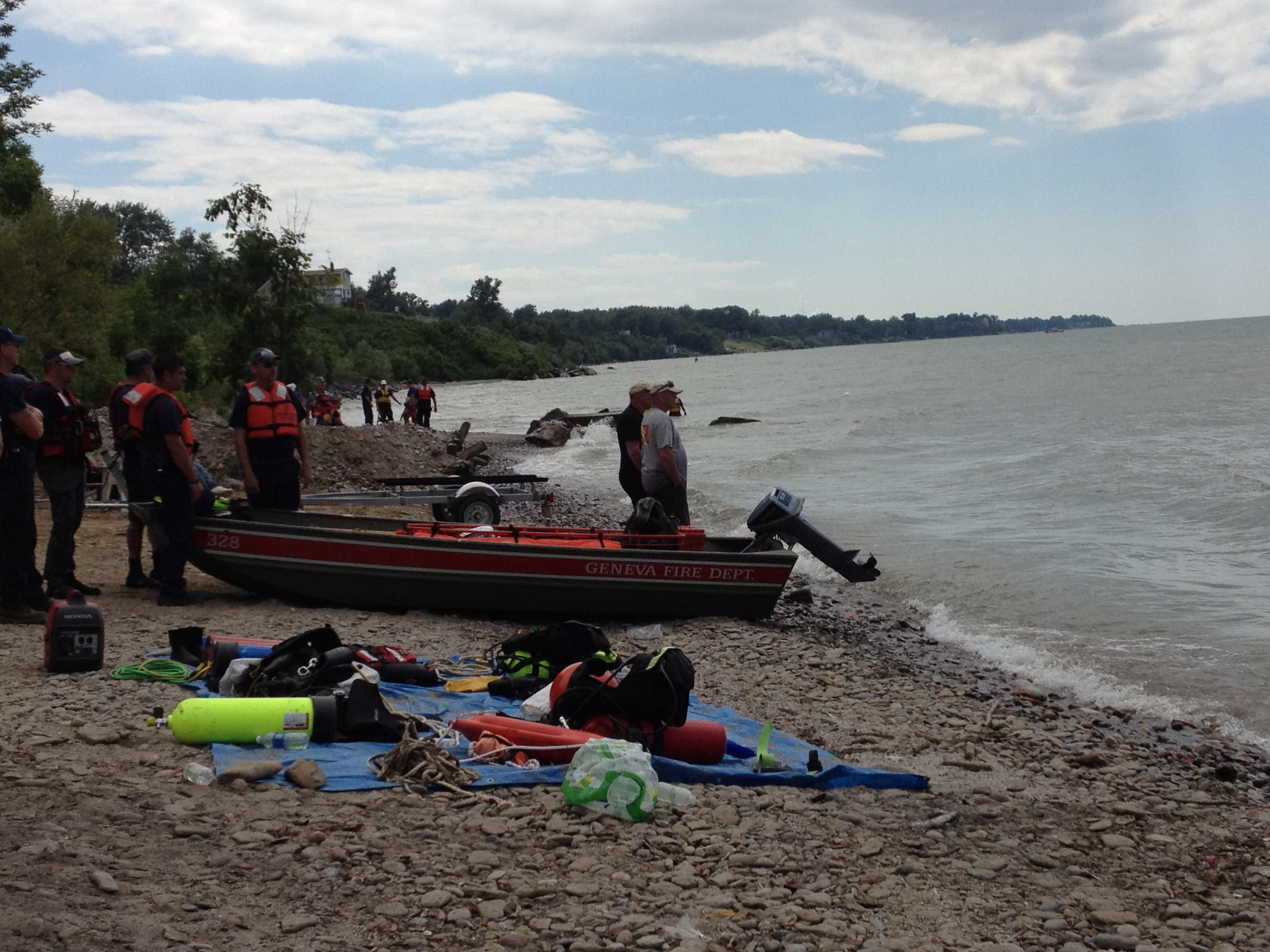 Emergency responders from multiple agencies responded to the shores of Lake Erie in the vicinity of Saybrook Township, Ohio, to search for a 13-year-old boy who went missing while swimming in Lake Erie, July 13, 2013. The search has covered nearly 400 square miles of Lake Erie, and the search has been conducted by multiple agencies and assets. (U.S. Coast Guard photo by Petty Officer 2nd Class Levi Read)